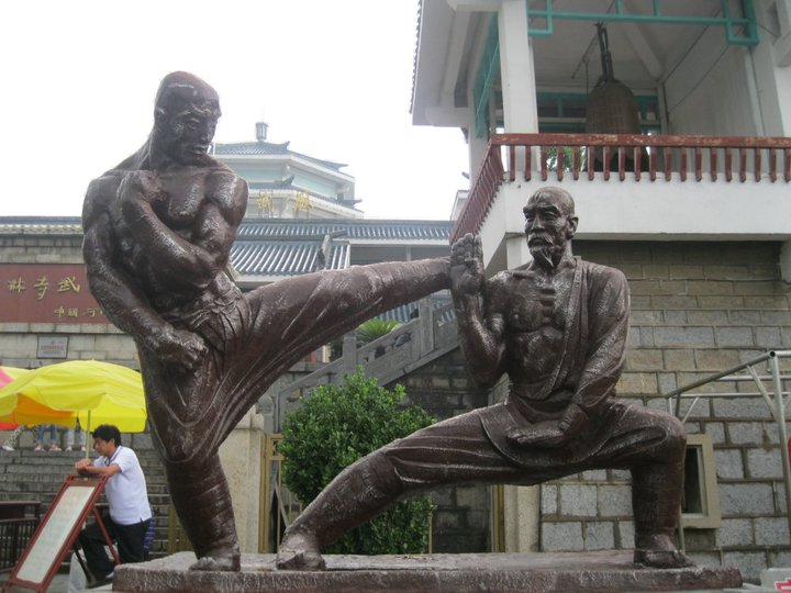 A statue of one monk blocking the kick on another at the Shaolin Temple outside the gates of the Kung-Fu Show theater